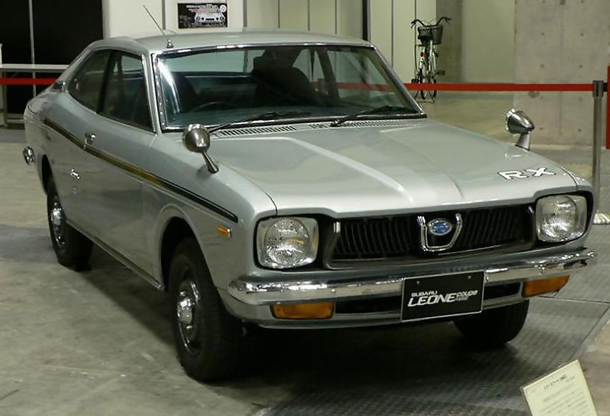 1972 Subaru Leone 1400 RX coupé